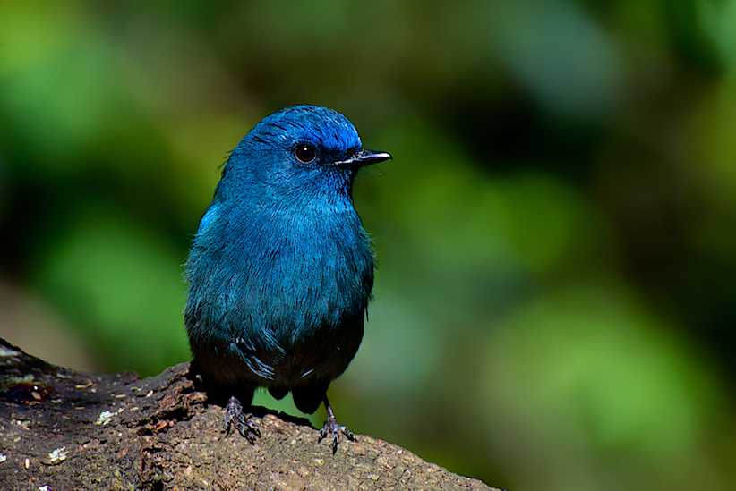 Nilgiri Flycatcher by Dharani Prakash